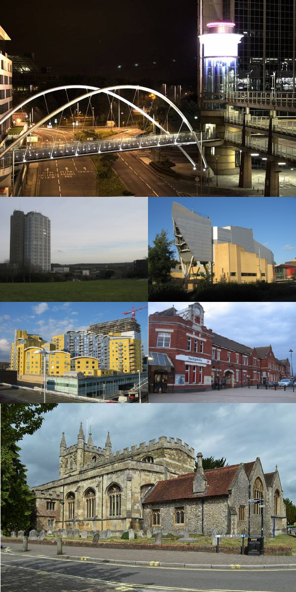 A montage of various locations in Basingstoke, Hampshire.